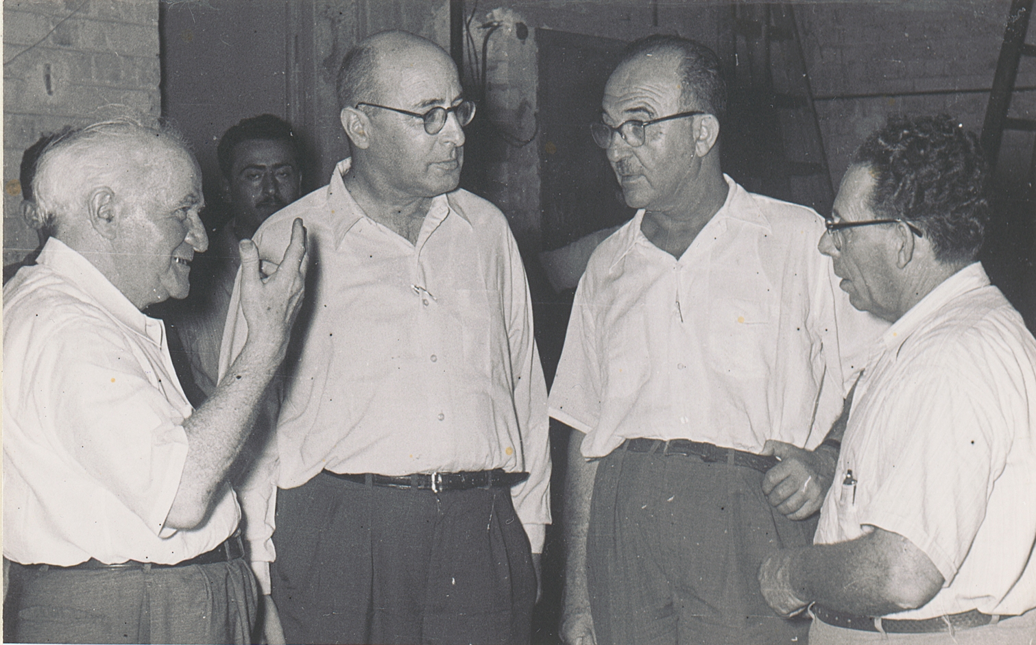 Levi Eschol